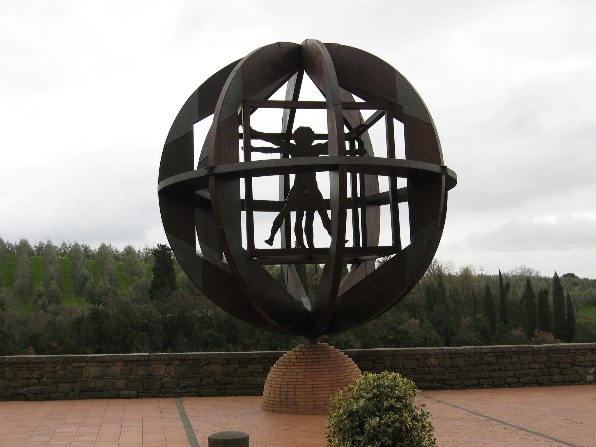 Vitruvian man, Vinci, Florence, Tuscany, Italy